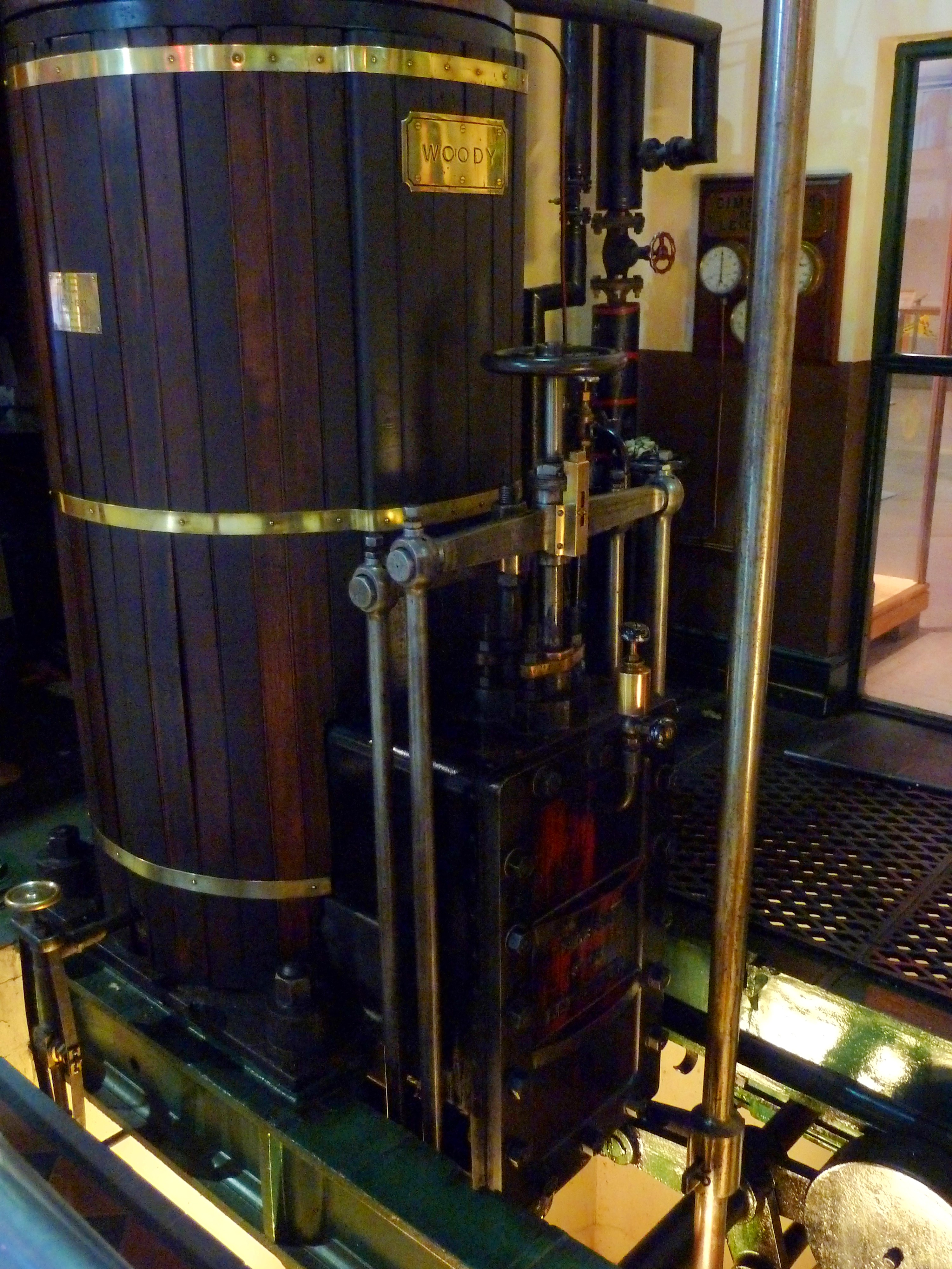 Gimson of Leicester beam engine of 1879. The second valve and its rods (to the right, away from the cylinder) are a Meyer expansion valve. The handwheel above allows the engine's cut-off to be adjusted, according to the engine load, whilst running.